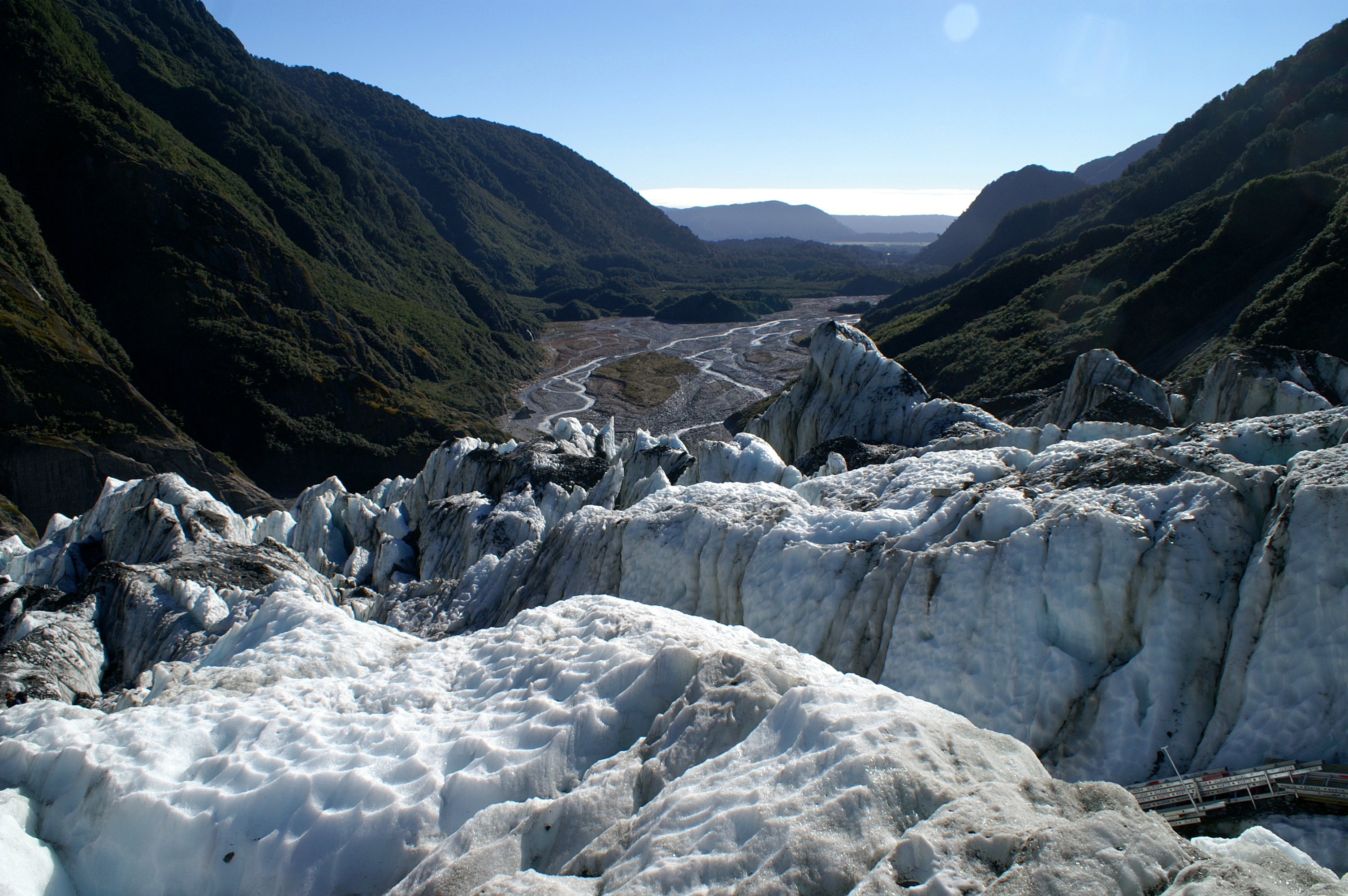 View into the valley from Franz-Josef glacier, New Zealand